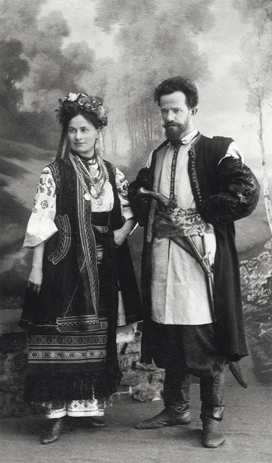 The couple Margaret and Alexander Murashko. 1909.